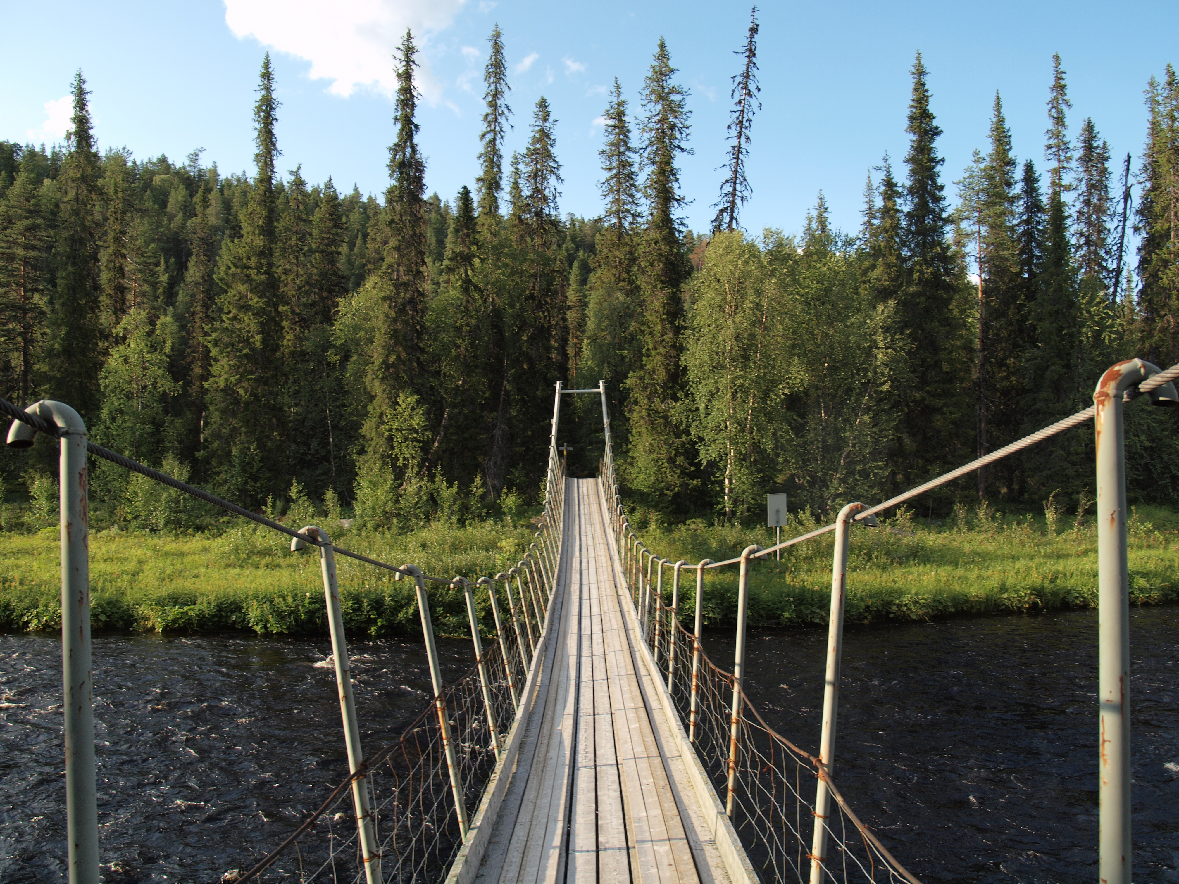 A bridge over the river Nuortti in Savukoski, northern Lapland, Finland, very close to the Russian border. The border control zone is only metres away from the bridge, along the river (not across the bridge).